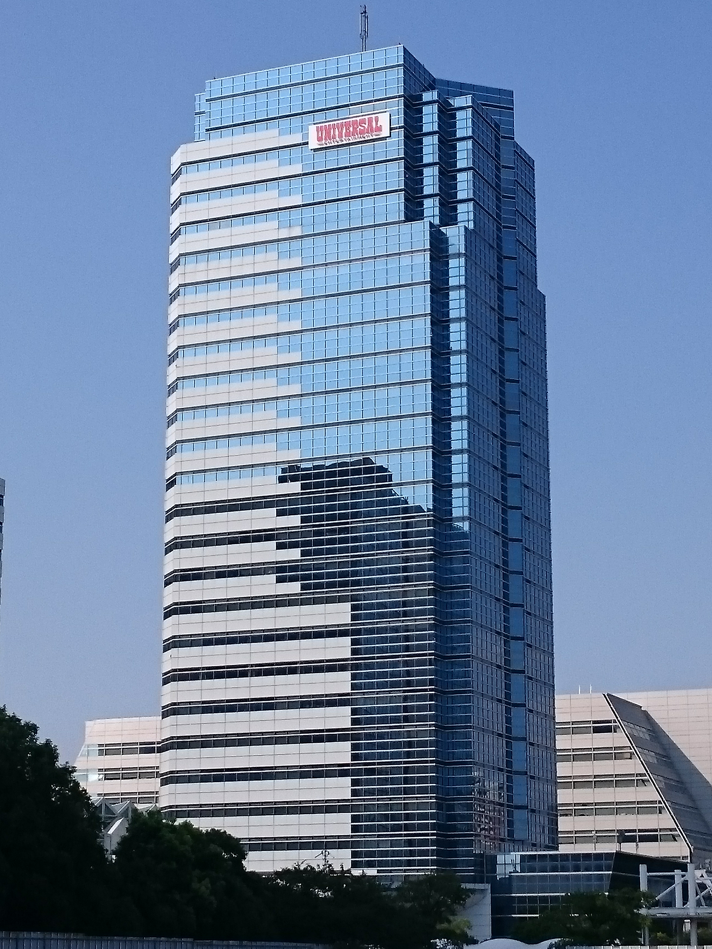 Ariake Frontier Building A (有明フロンティアビルA棟), located at 7-26 Ariake 3-chome, Koto, Tokyo, Japan